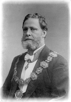 Karl Lueger, Mayor of Vienna, negative, gelatin on glass15 x 11 cm.